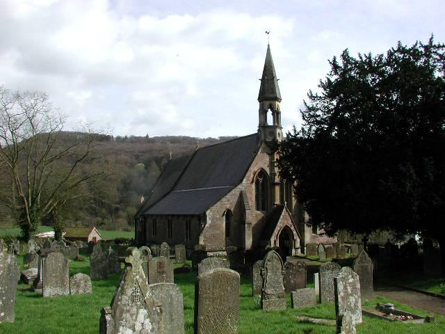 Llandogo, Church of St Oedoceus.